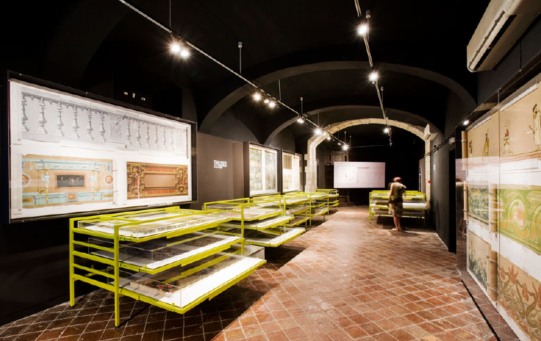 Material and rooms of the Wallpaper exhibit at Disseny Hub Barcelona